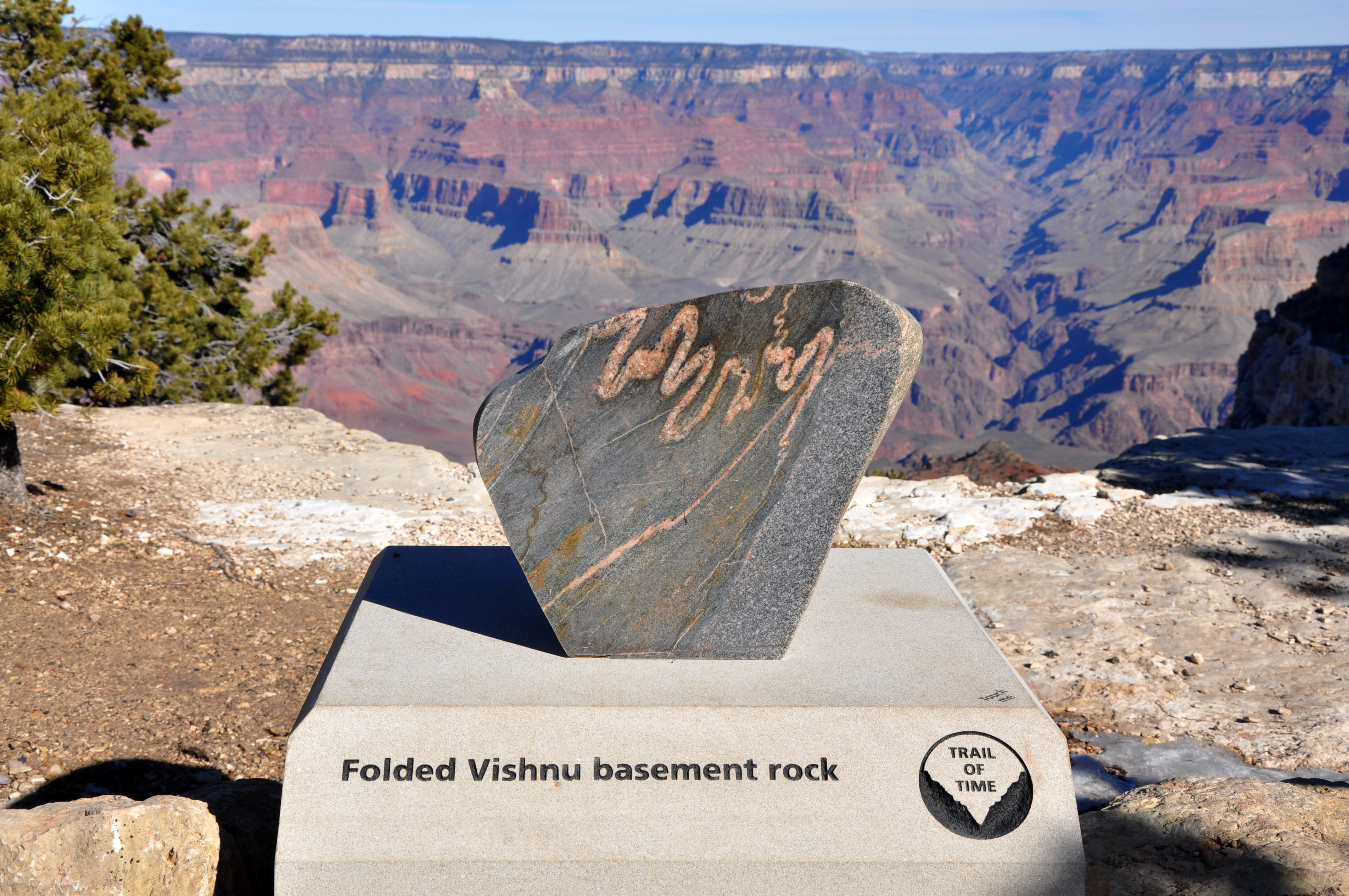 The Trail of Time is an interpretive walking trail that focuses on Grand Canyon's vistas and rocks, encouraging visitors to ponder, explore, and understand the magnitude of geologic time and the stories told by canyon's rock layers and landscapes. Walking the trail is intended to give park visitors a visceral appreciation for the magnitude of geologic time... .. This 4.56 km (2.83 mile) long trail is actually a geologic time-line. Each meter on the trail signifies one million years of Grand Canyon's geologic history; and bronze markers mark one meter intervals. Every tenth marker is labeled in millions of years. NPS Photo by Erin Whitakker . For more information